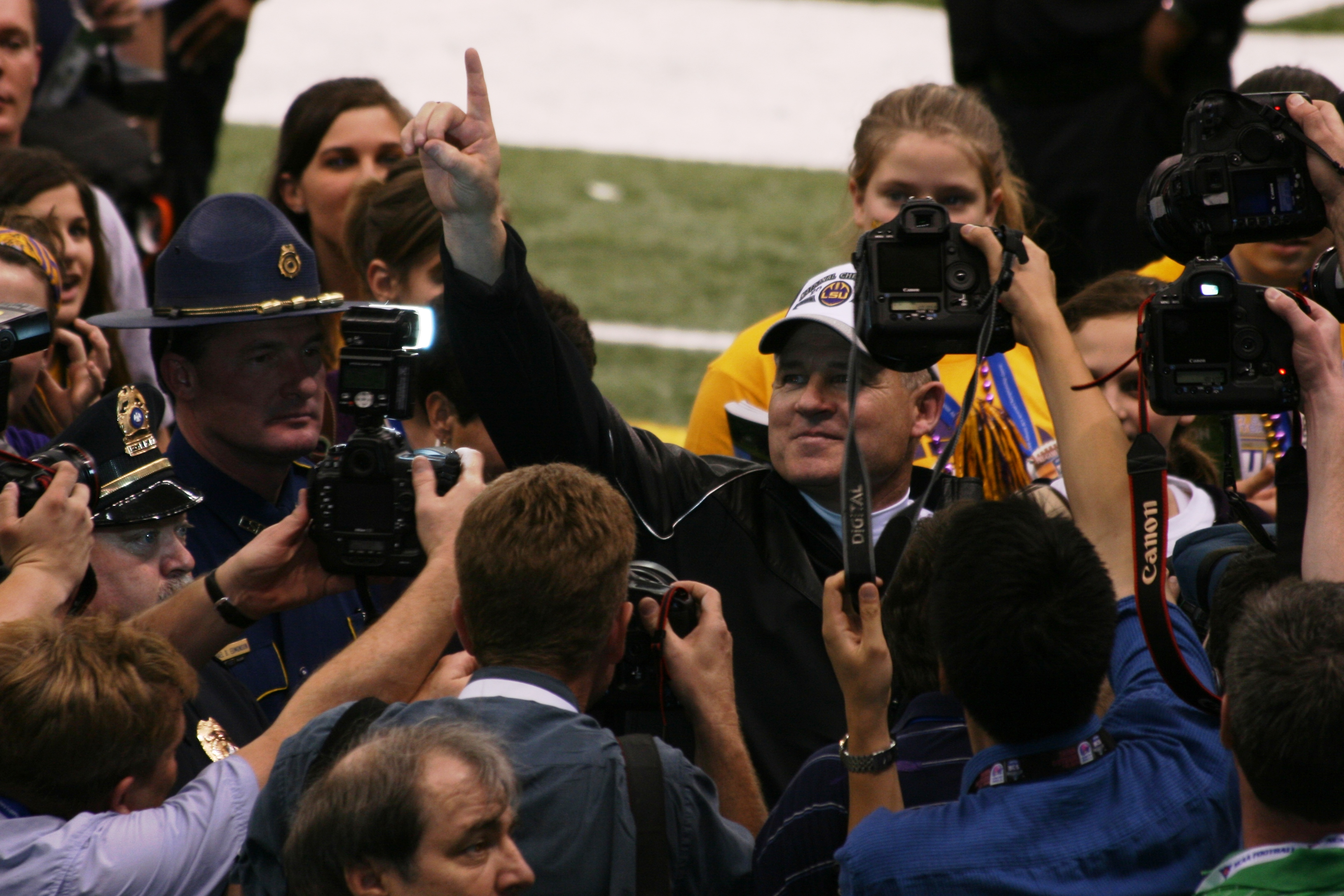 LSU Coach Les Miles shows the crowd who's number one